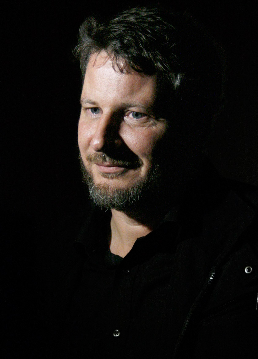 Andreas Prochaska at the premiere of the movie Die unabsichtliche Entführung der Frau Elfriede Ott at the Gartenbaukino in Vienna.